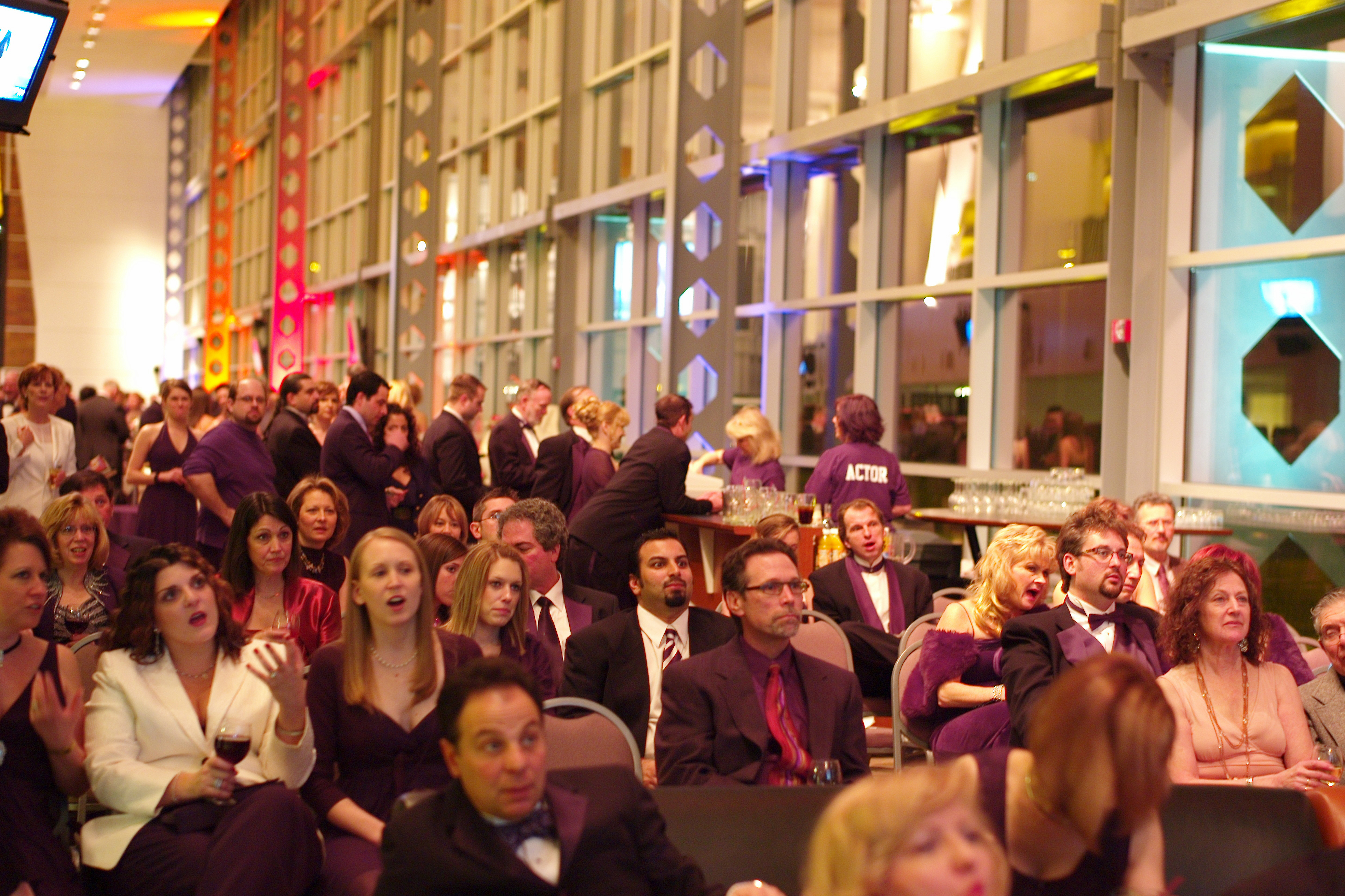 A photo of the audience at the 2007 PFO Oscar Party held at Heinz Field.